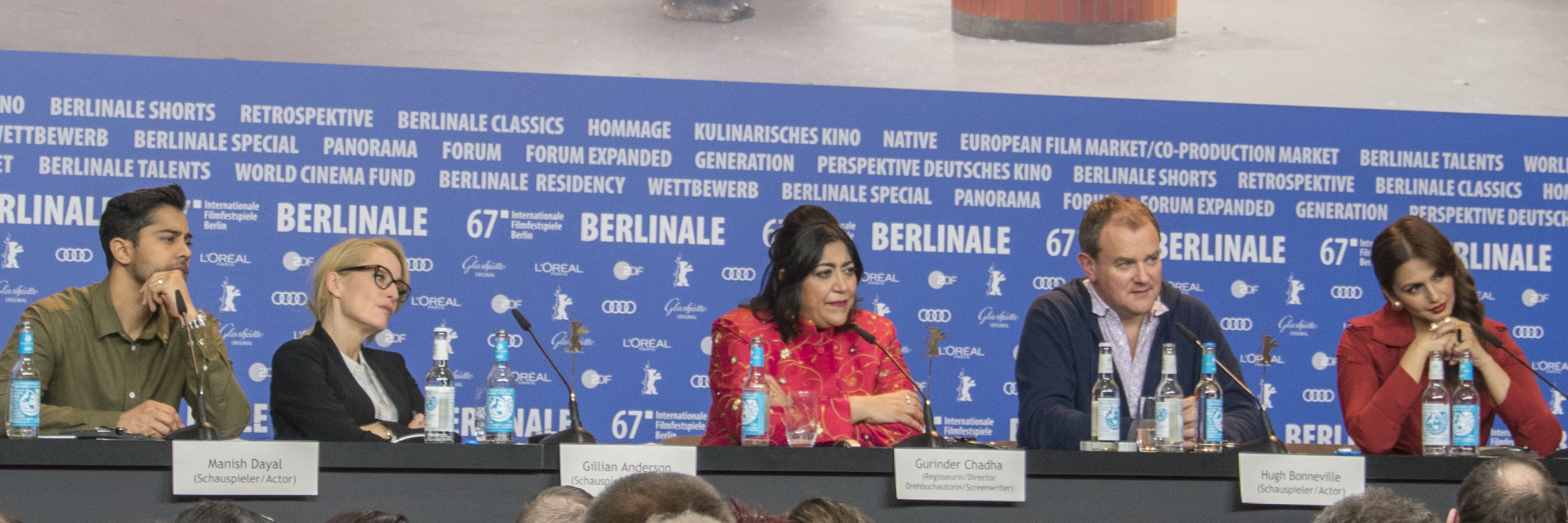 Manish Dayal, Gillian Anderson, Gurinder Chadha, Hugh Bonneville, Huma Qureshi at the press conference of the film Viceroy's House at the 2017 Berlin International Film Festival